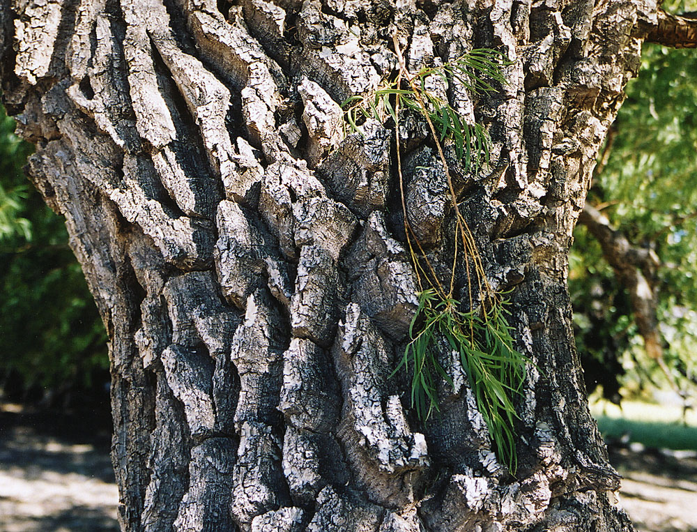 Bark of the older Sauce trees looks like this.